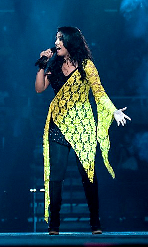 Sunidhi Chauhan performing at TOIFA Musical Extravaganza 2013